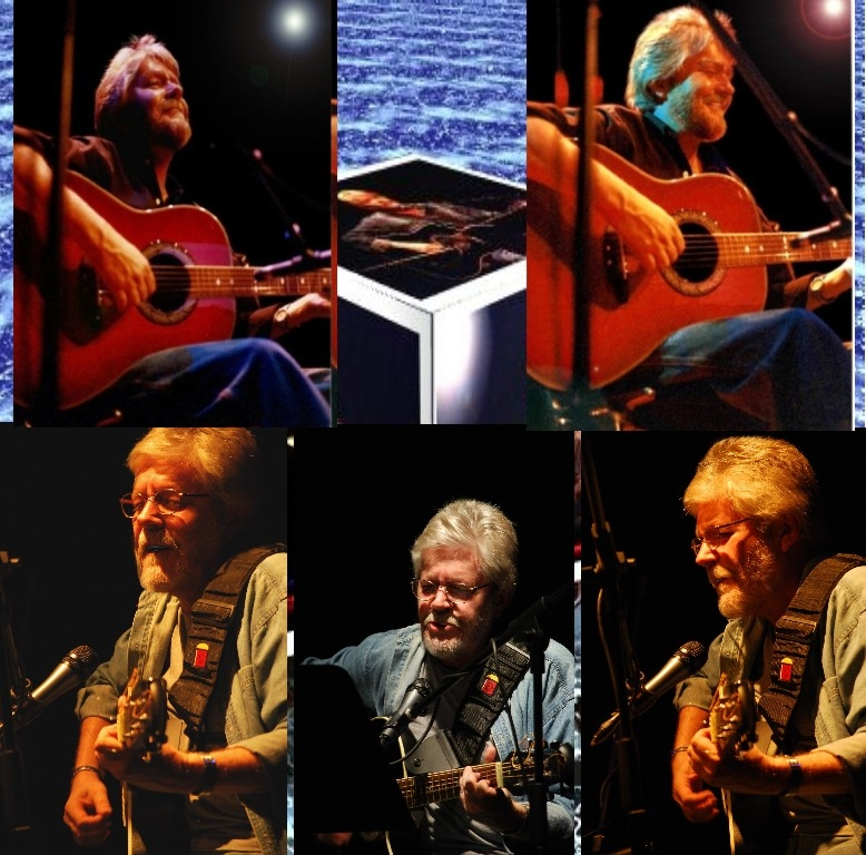 Xulio Formoso in concert